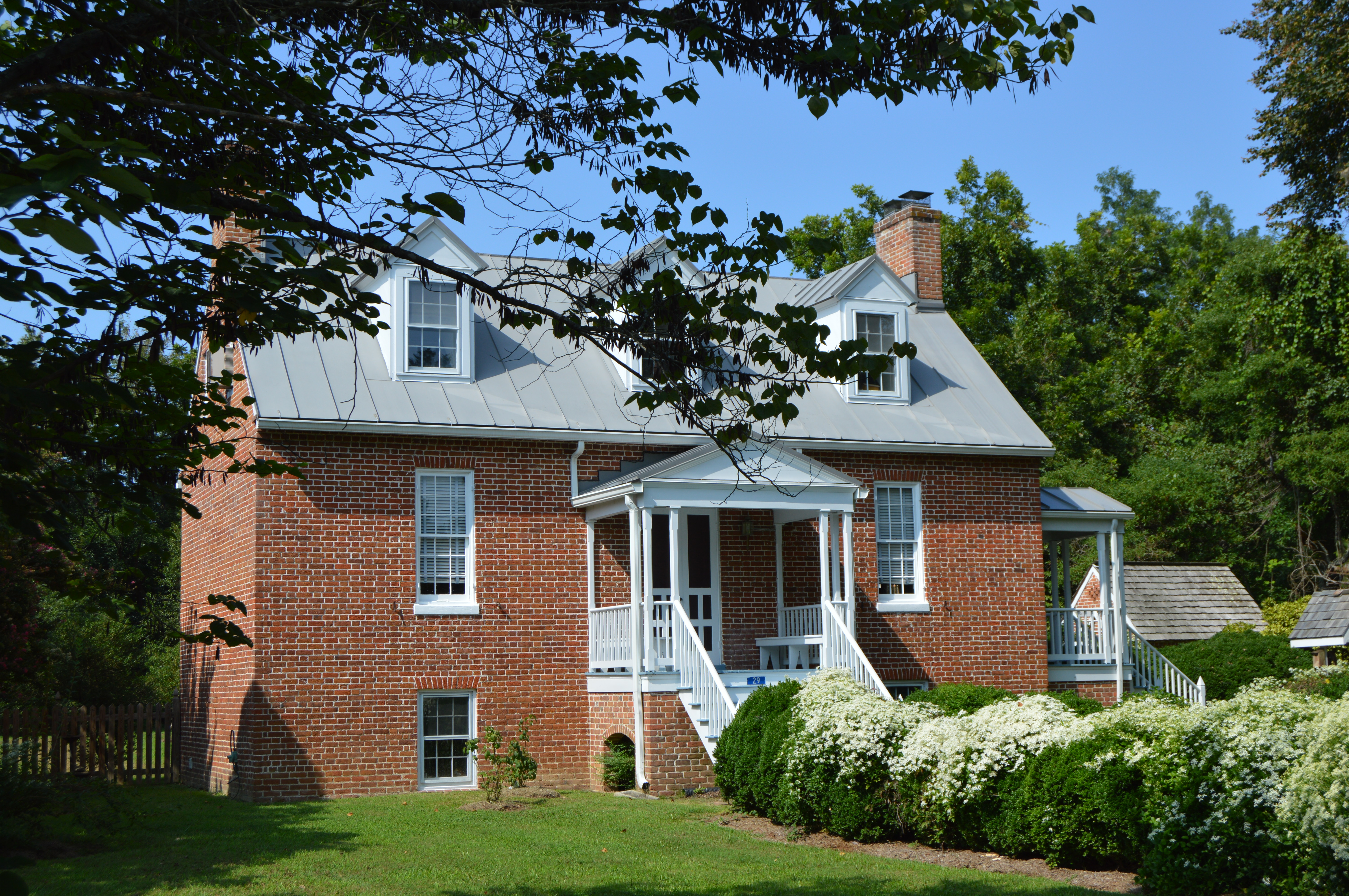 Front and western side of The Academy, located at the intersection of U.S. Route 360 and St. Stephen's Lane in Heathsville, Virginia, United States. Built in 1800, it is listed on the National Register of Historic Places.